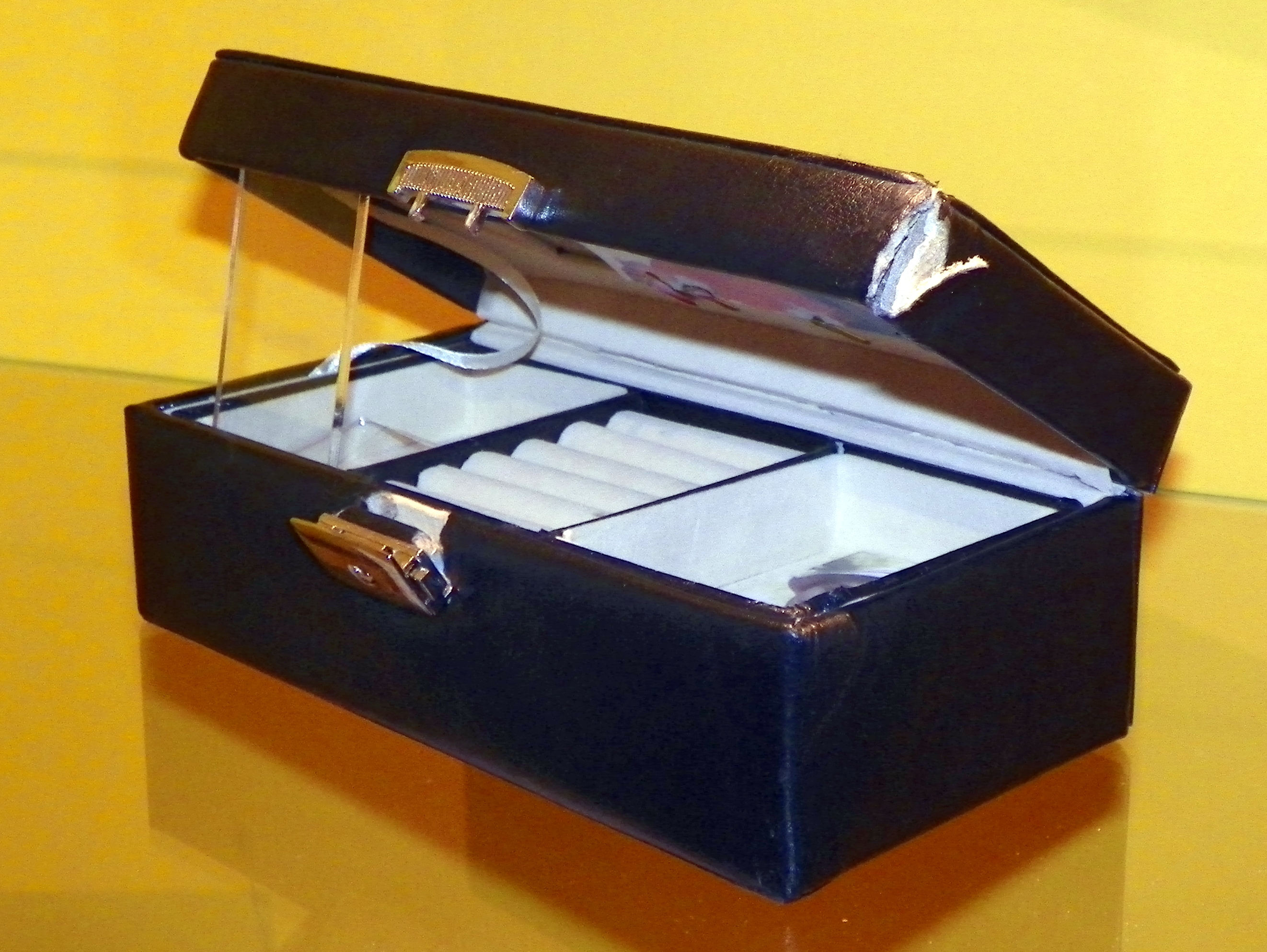 Jewellery box on display at the "EastEnders at 30: In Our Manor" exhibition at the Elstree and Borehamwood Museum in Hertfordshire. This is a prop from EastEnders and was the murder weapon in the "Who Killed Lucy Beale?" storyline when Bobby Beale killed his half-sister Lucy.